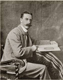 Painter affiliated with the Pre-Raphaelite Brotherhood.